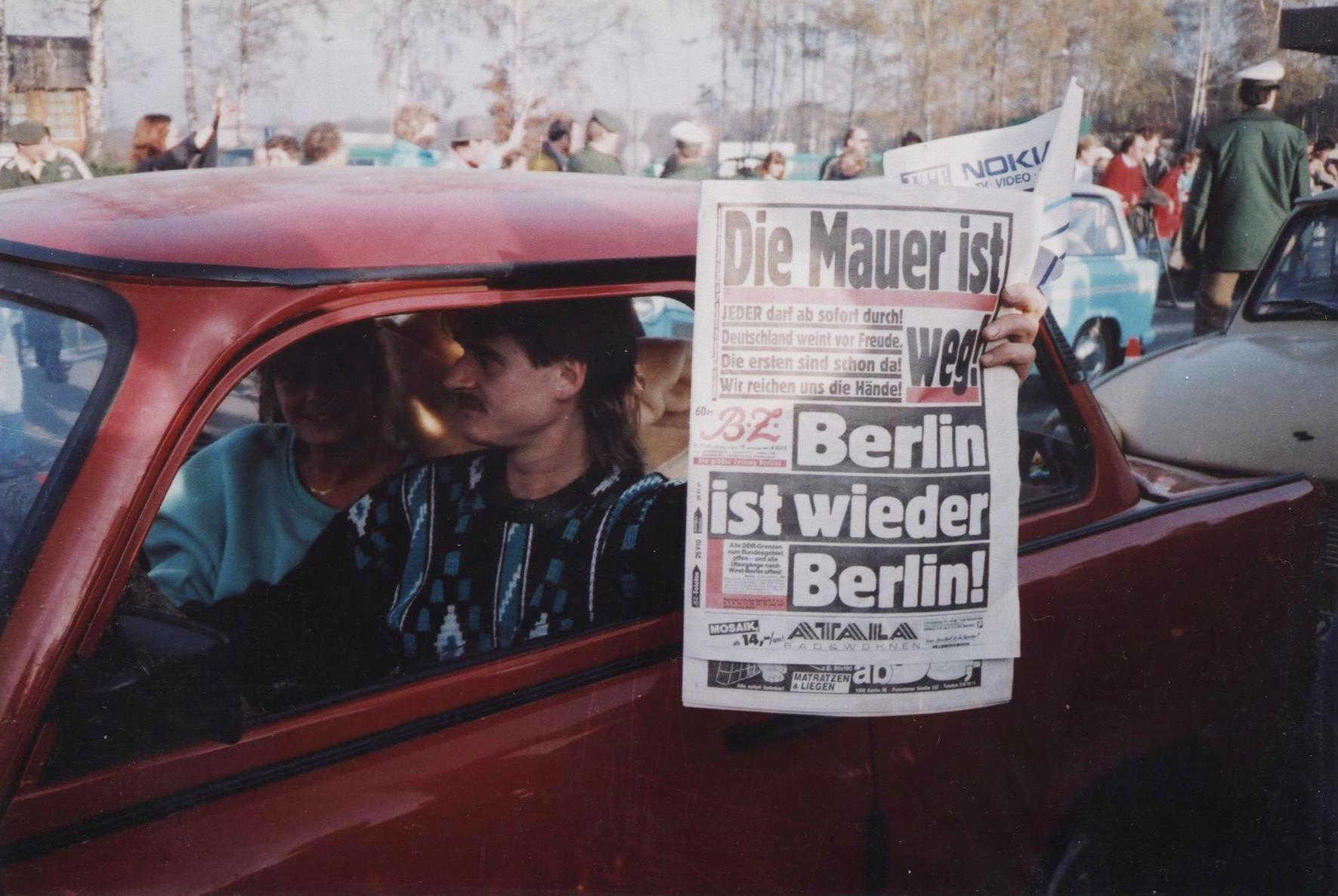 Border opening at checkpoint Helmstedt in November 1989